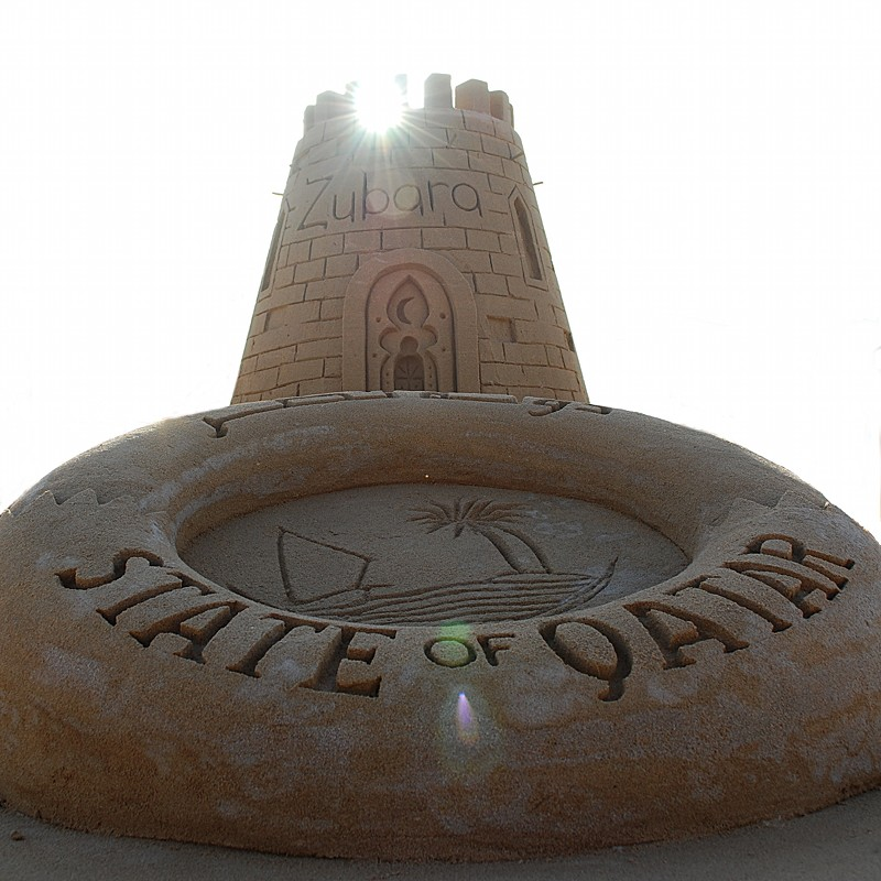 An example of architecture in the town of Zubarah in Qatar. Taken by Pierre-Emmanuel Larrouturou